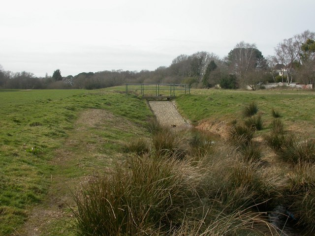 Bourne Valley Park, weir Bourne Valley Park was remodelled in 2008 to provide a more diverse environment for local residents and to cope with storm water runoffs, with terraced stream channel, basins & weir. For water to pass down the top of the weir was predicted to a be a once in twenty years event; but it happened three times in 2007!